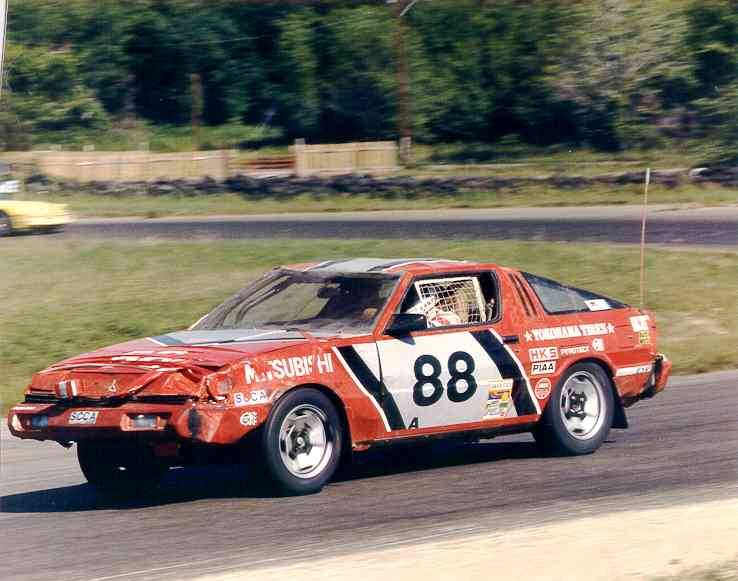 1985 Longest day of Nelson Ledges, 24 hour race. The Team Mitsubishi Starion soldiers on, despite heavy rollover crash damage(Note the chicken wire "windshield"). Winning it's class in an amazing display of mechanical reliability.